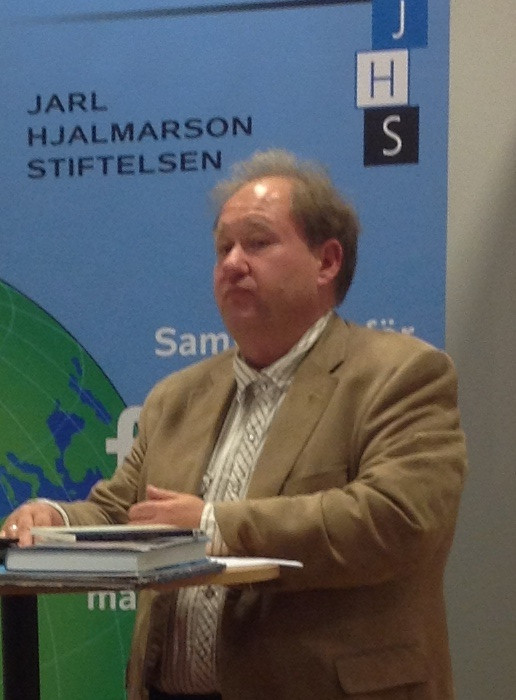 Torsten Svenonius speaking at the Jarl Hjalmarson Foundation